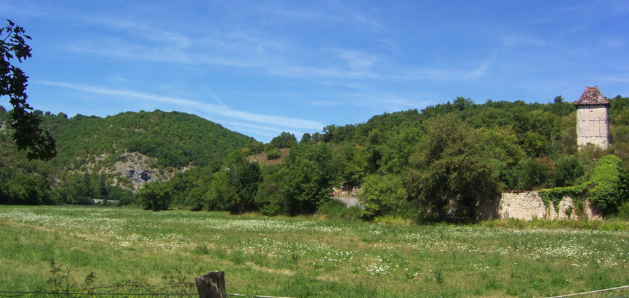 Valley of the river Ouysse seen from its confluence with Alzou near town of Calès. Very far we can see the bridge of road D673 going from Rocamadour to Calès.